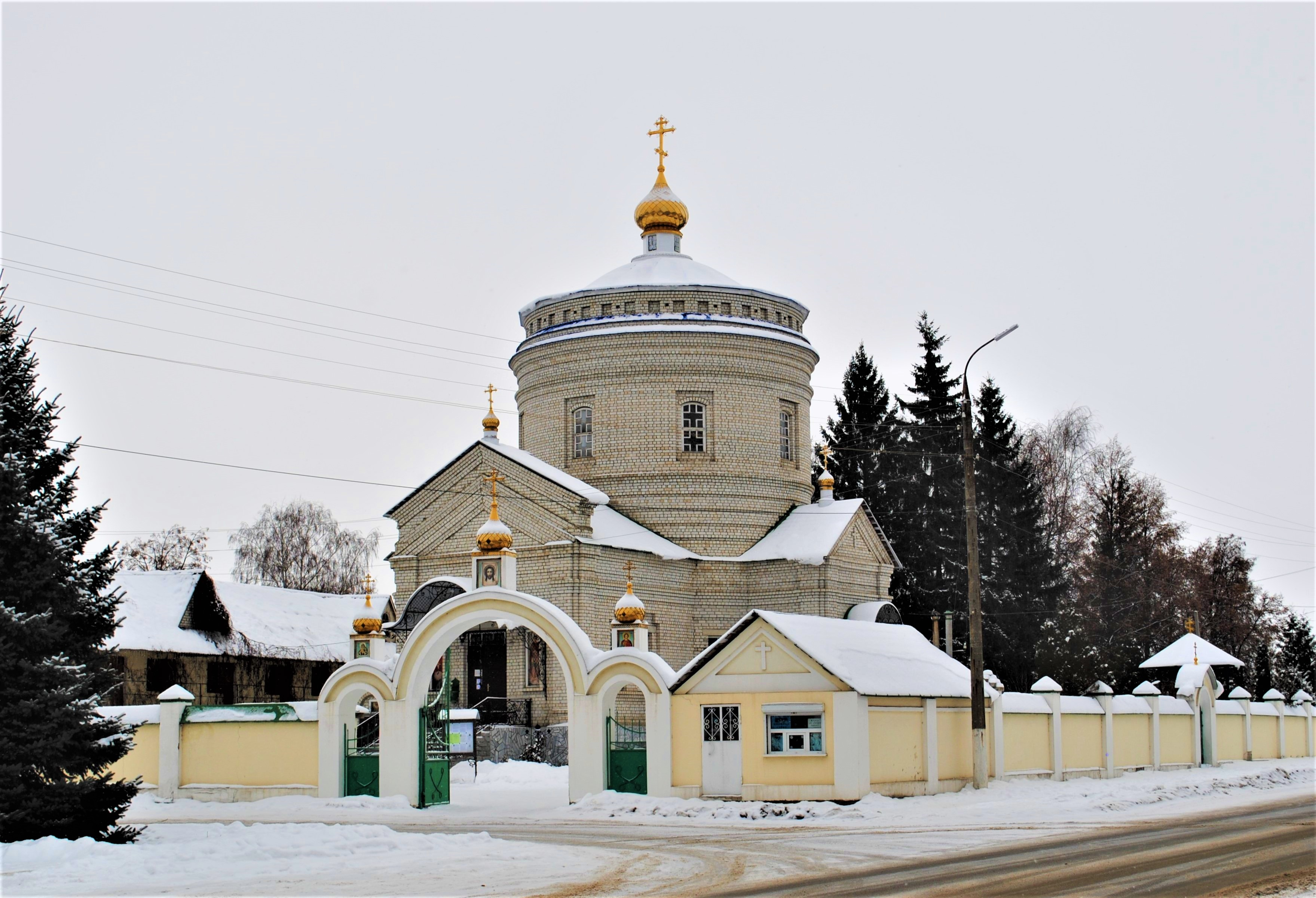 Churches in Livny